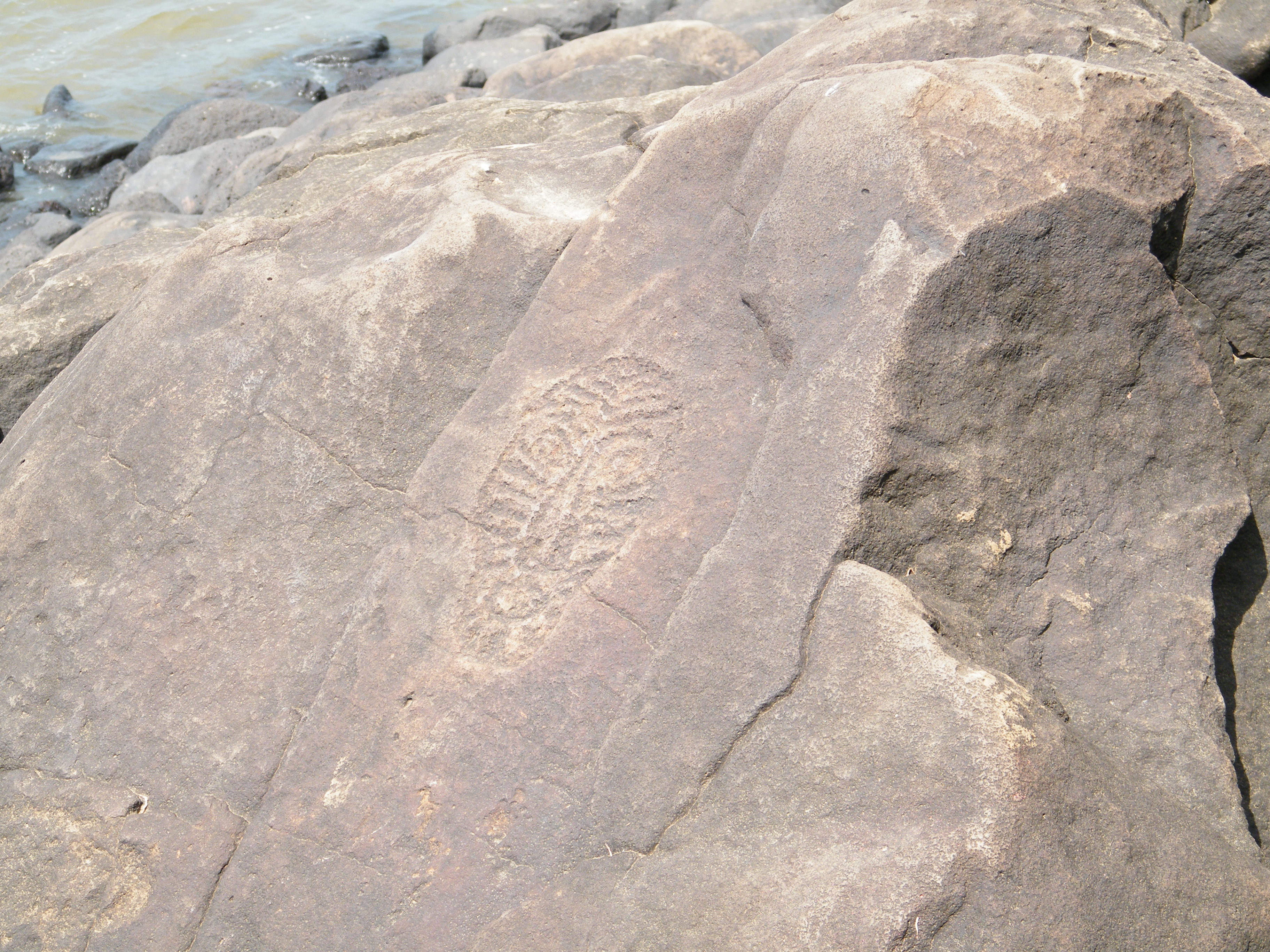 Petroglif of Sikachi-Alyan